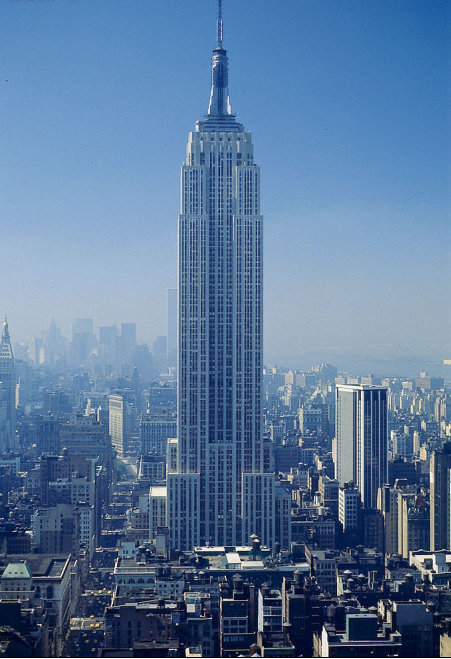 Empire State Building and WTC